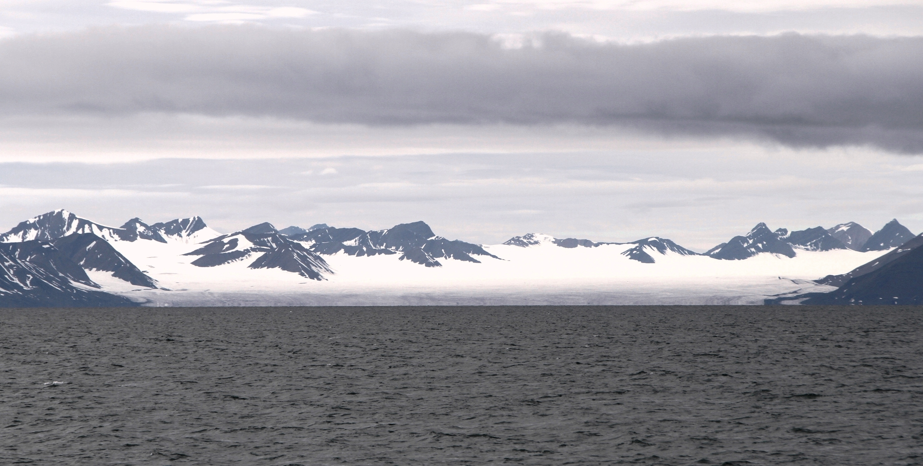 Image from Isfjorden (south) towards north into the southeastern parts of Oscar II Land, central Spitsbergen.